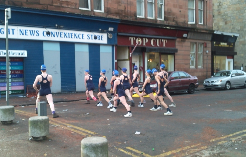 Activists at Victoria Road, Govanhill, South of Glasgow